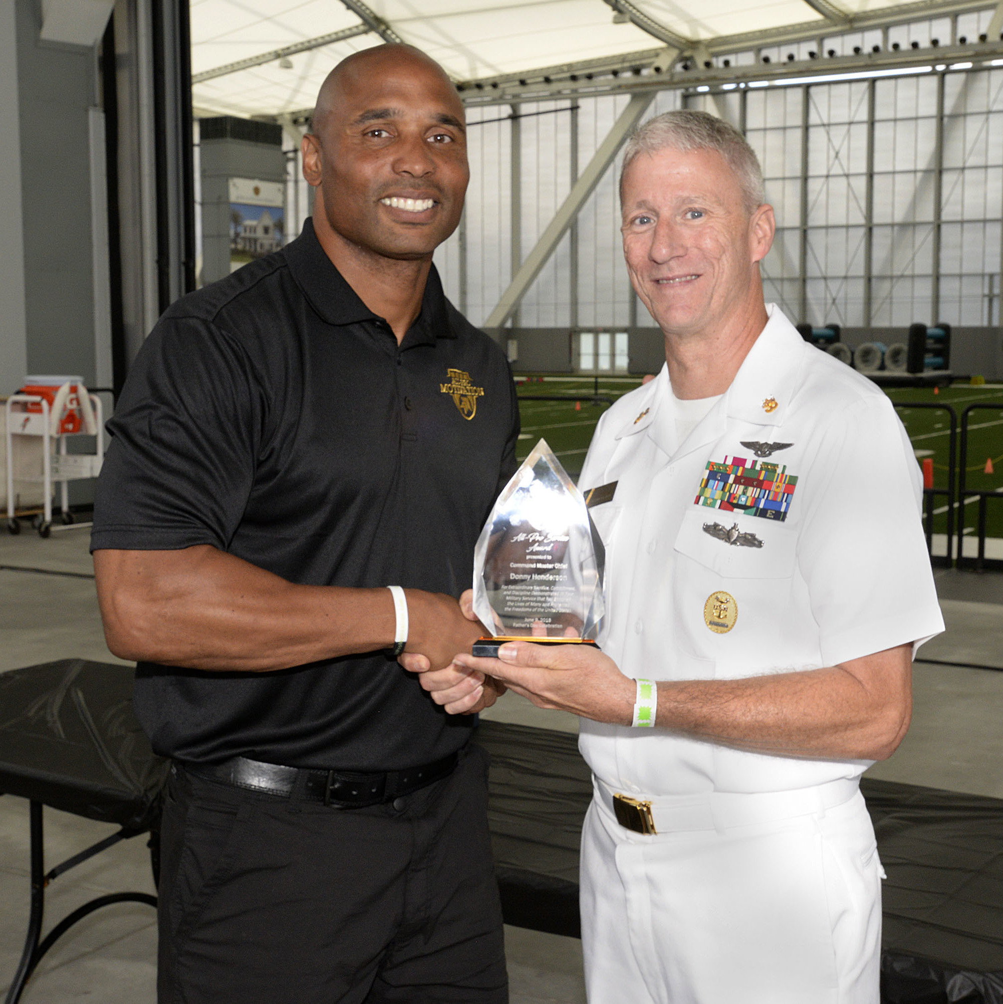 JACKSONVILLE, Fla. (June 7, 2018) Former Jacksonville Jaguars strong safety Donovin Darius, left, presents Fleet Readiness Center Southeast Command Master Chief Donald Henderson with the All-Pro Service Award at Daily’s Place during the Donovin Darius Foundation’s Father’s Day event. Henderson will retire in July after 30 years of Naval Service. (U.S. Navy photo by Anthony Casullo/Released)